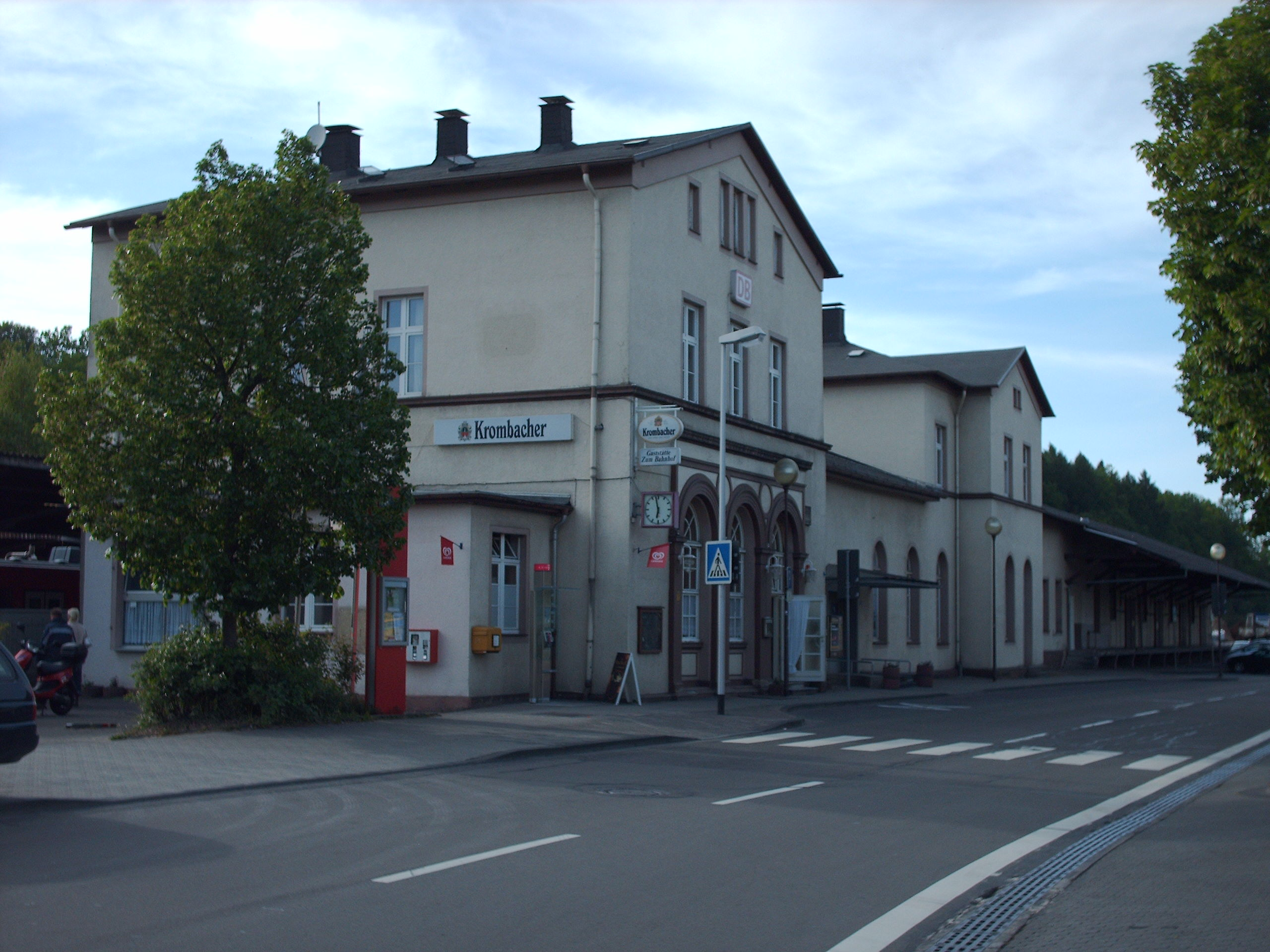 Olpe station, Olpe, Germany check usage